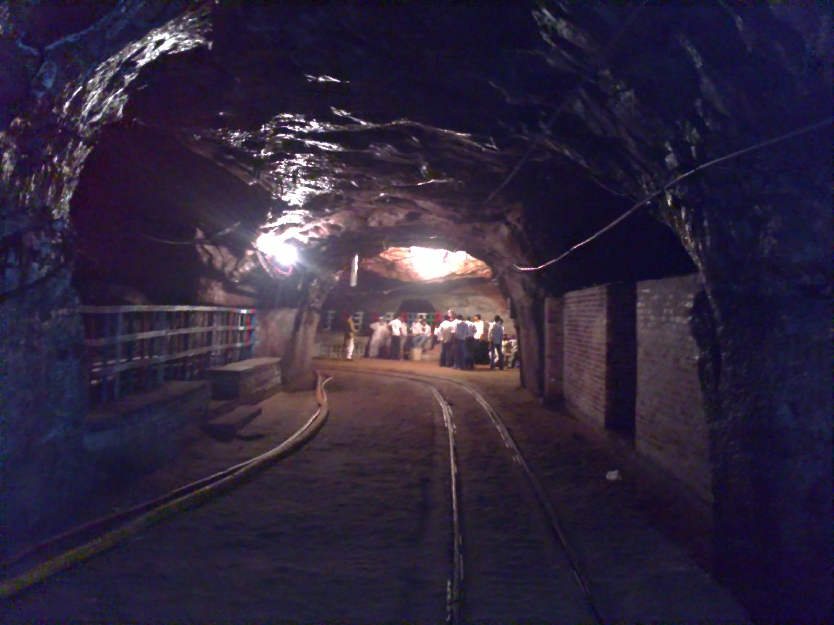 Pics From My Visit To Hari Pur, Khewra And Kallar Kahar